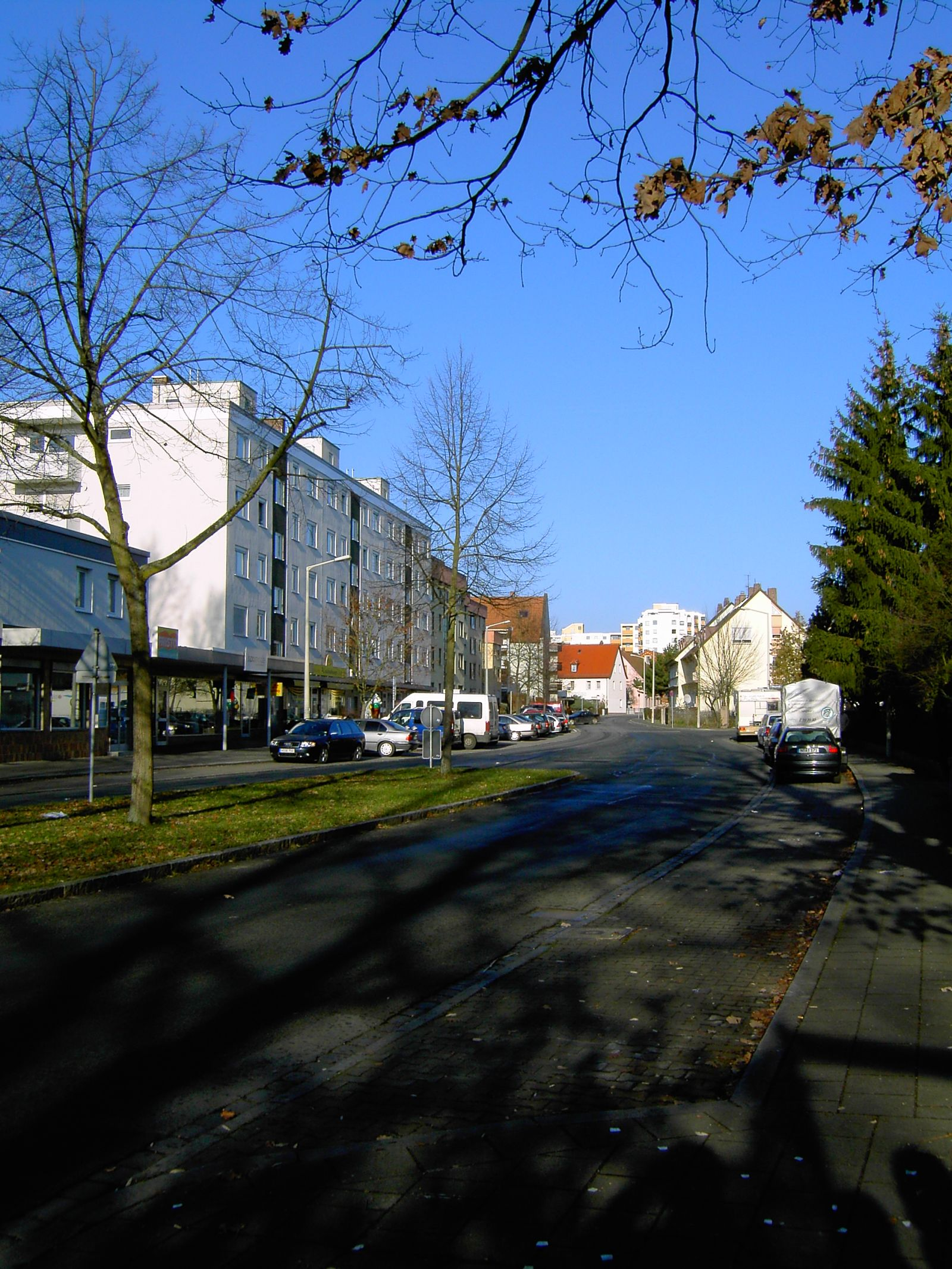 Main street of Röthenbach bei Schweinau, a part of Nuremberg.